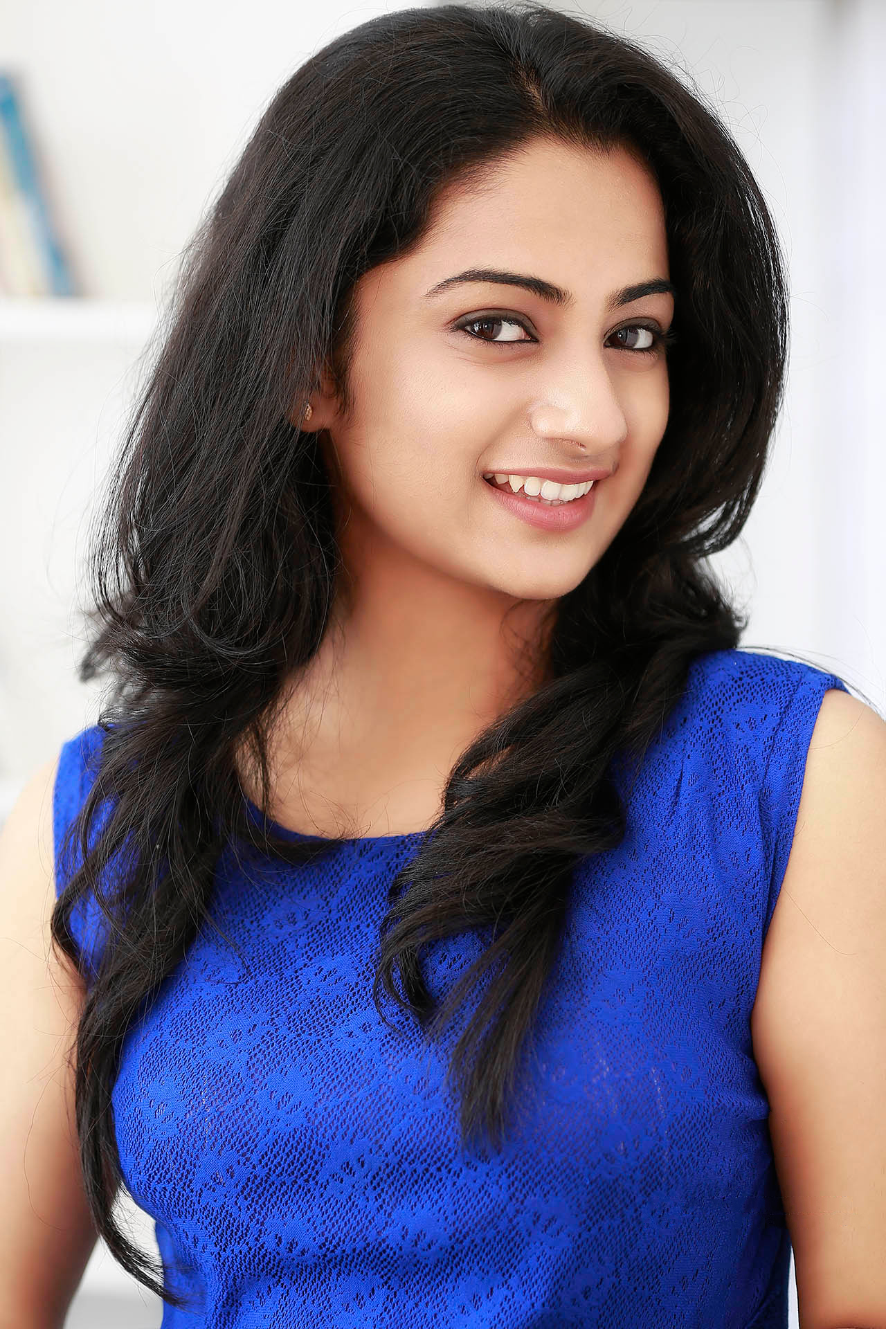 Actress Namitha Pramod